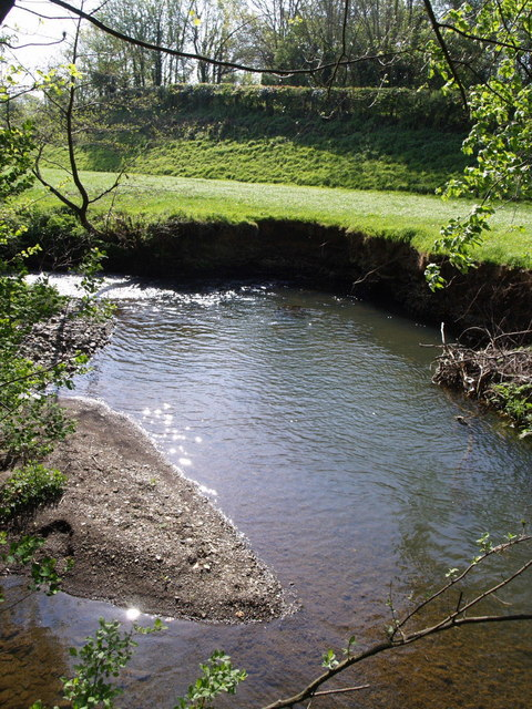 River Lew. The Lew a few yards above 427012, looking upstream, and obliquely across the meadow seen in 421444. In the background is the lane in 427025.